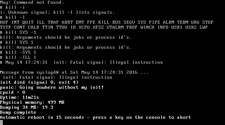 From FreeBSD 7.0 using kiil -ILL 1. A man made panic.